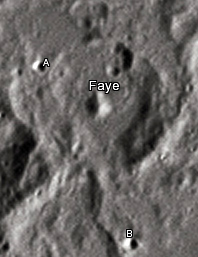 Faye lunar crater as seen from Earth with satellite craters labeled